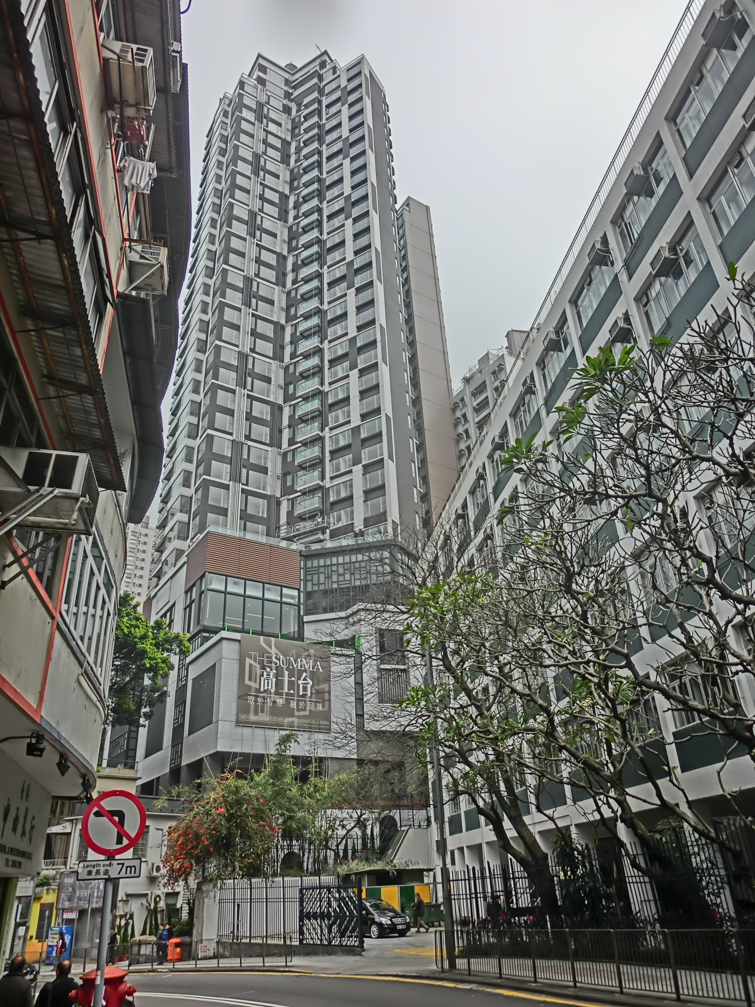 Pokfulam Road view 高士台 The Summa facade Feb-2014